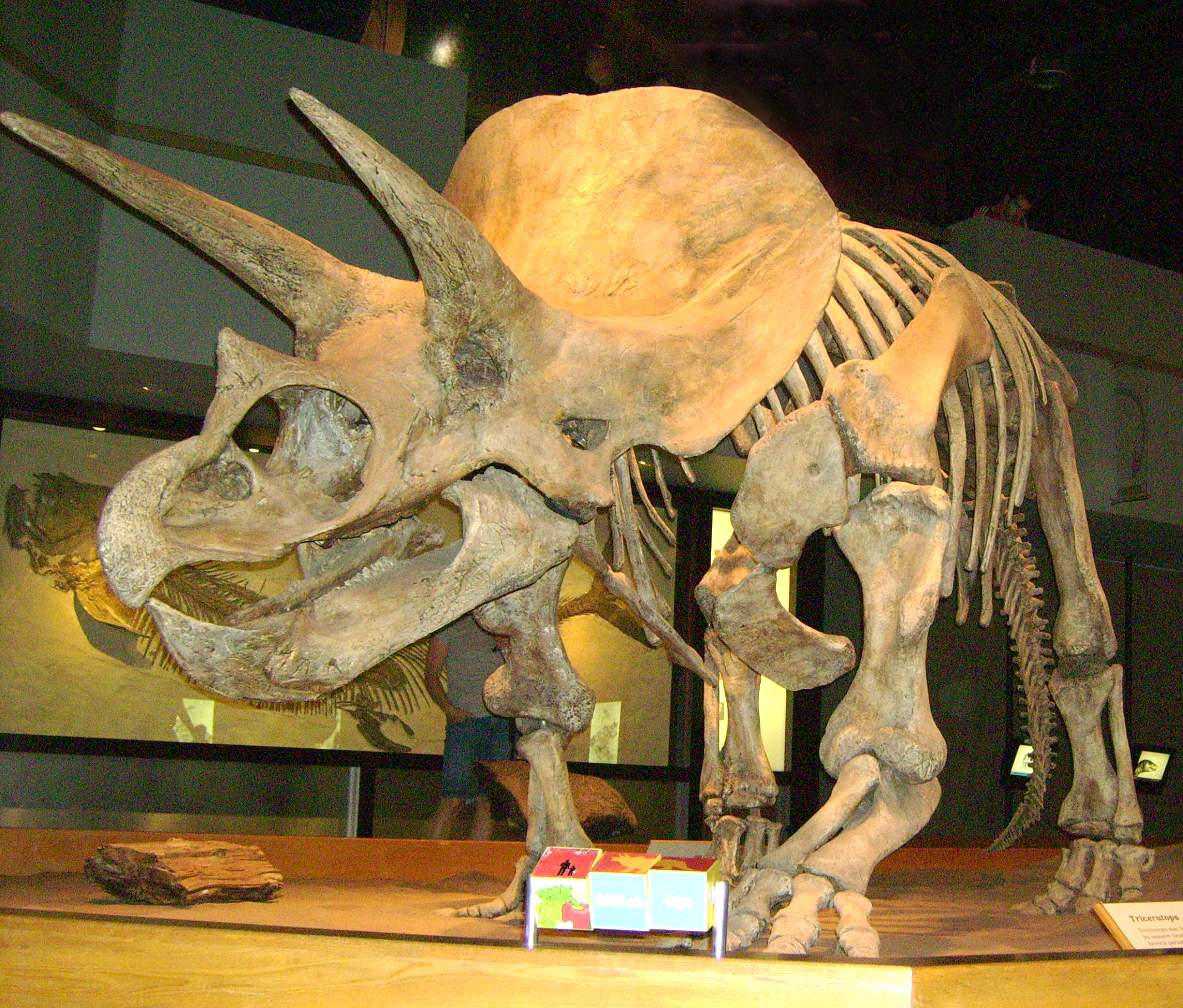 Triceratops Fossil from the Royal Tyrrell Museum at Drumheller, Alberta, Canada